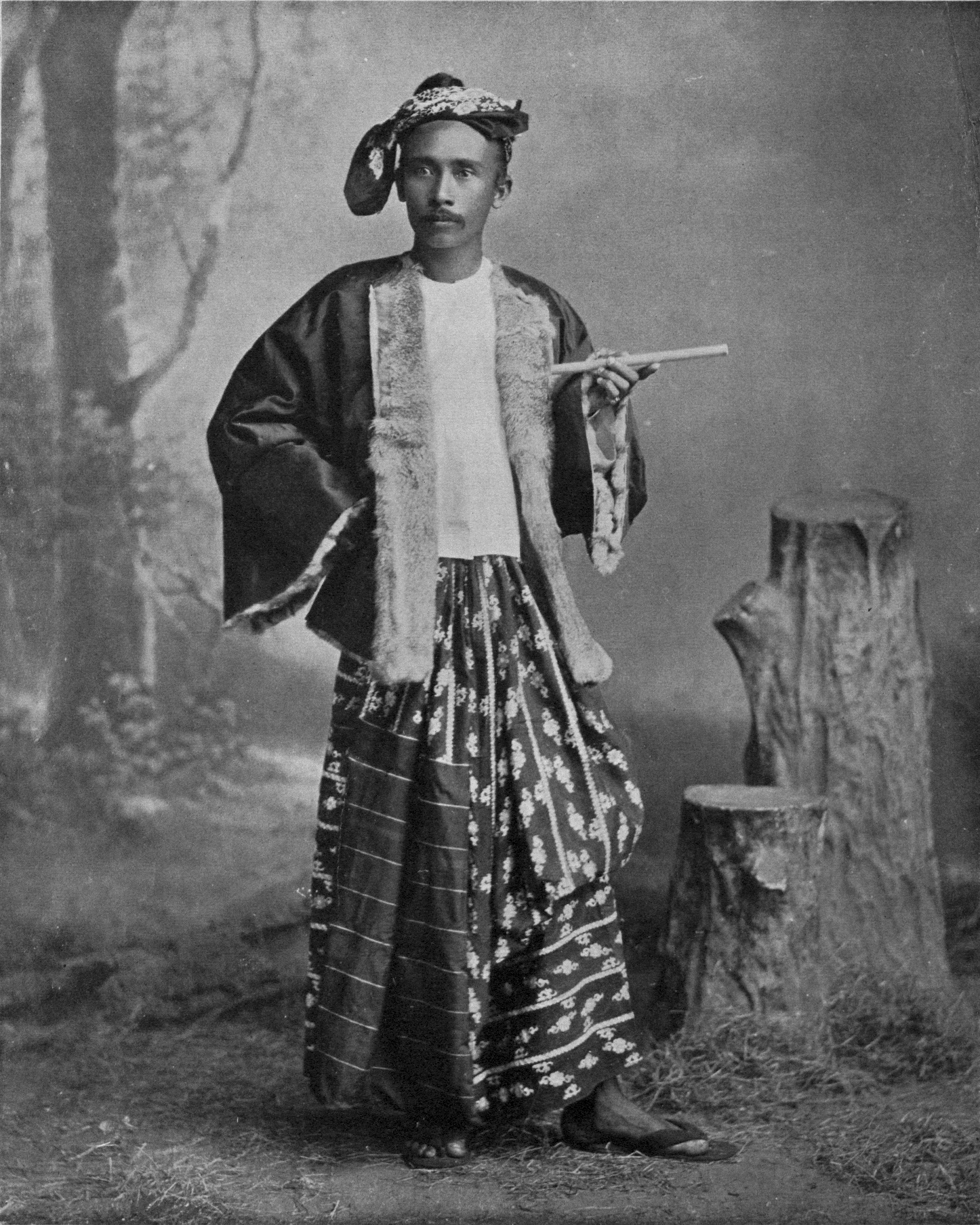 Photograph of a Burmese man, Burma (Myanmar), taken by Philip Adolphe Klier in the 1890s. In this full-length studio portrait the man is shown posed with hand on hip holding a cigar in his left hand, against a painted backdrop of a woodland scene. He wears a turban, a fur-lined jacket, and the man’s lower garment known as a silk pahso. During the Konbaung Dynasty (1752-1885), fine fabrics such as silk and garments such as the jacket were reserved for court officials by sumptuary laws. After the fall of the Burmese monarchy they were worn by the wealthy.